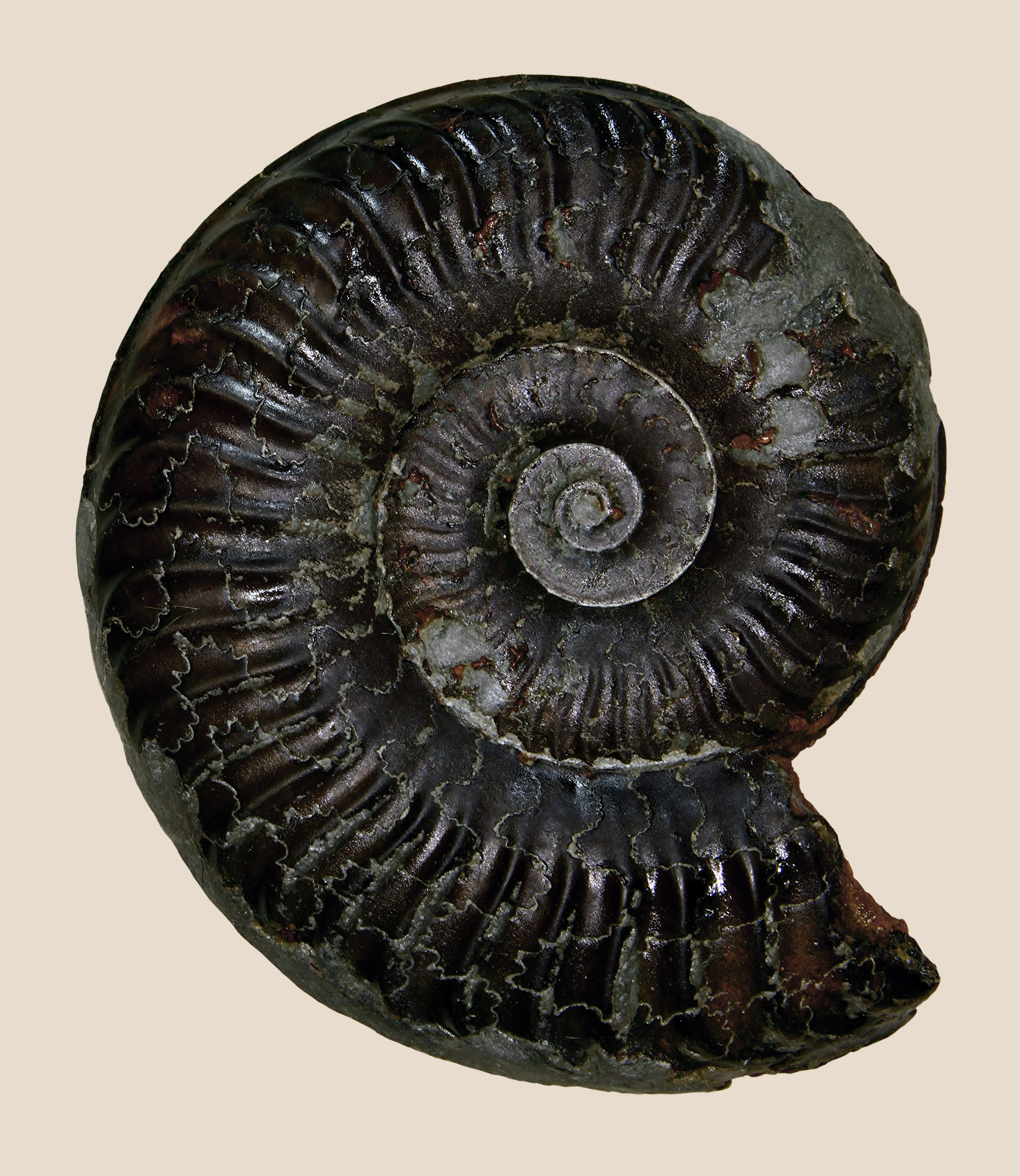 Grammoceras thouarsense, Hildoceratidae; Diameter 4,5 cm; Upper Toarcian, Lower Jurassic; Truc de Balduc near Mende, France; own collection, therefore not geocoded.